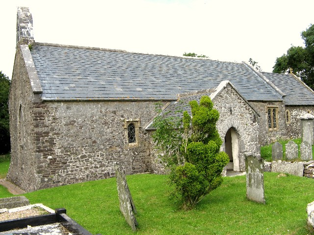 Eglwyscummin Church This shows the ancient church from the graveyard.